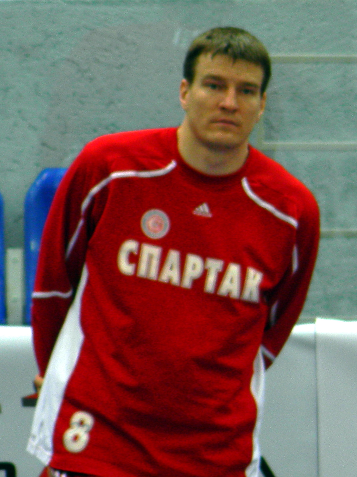 Aleksandr Bashminov, russian basketball player from Spartak Saint-Petersburg in the game against BC Nizhny Novgorod on March 19th, 2011